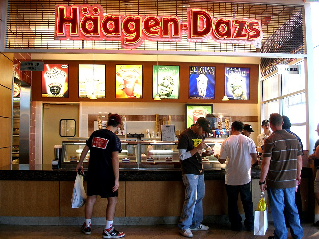 A Häagen-Dazs ice cream store in the food court of Fashion Show Mall, Paradise, Nevada (next to Las Vegas, Nevada).